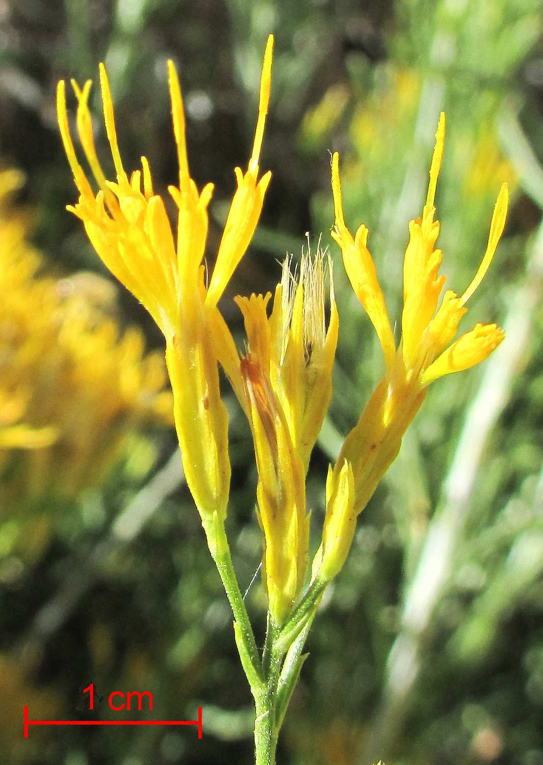 Rubber rabbitbrush (Ericameria nauseosa) flower Most of the flowers on the stem were pulled back for this photograph so that details of the individual flowers could be seen. Five separate flowers emanate from each bud. Location: Glacier Lodge Road near the entrance to Glacier Lodge, Inyo County, CA, USA Elevation: 7720 feet (2350 meters) Identification: Page 52 of the Laws Field Guide to the Sierra Nevada, 2006, also review of description on the Jepson site for for Chrysothamnus nauseosus